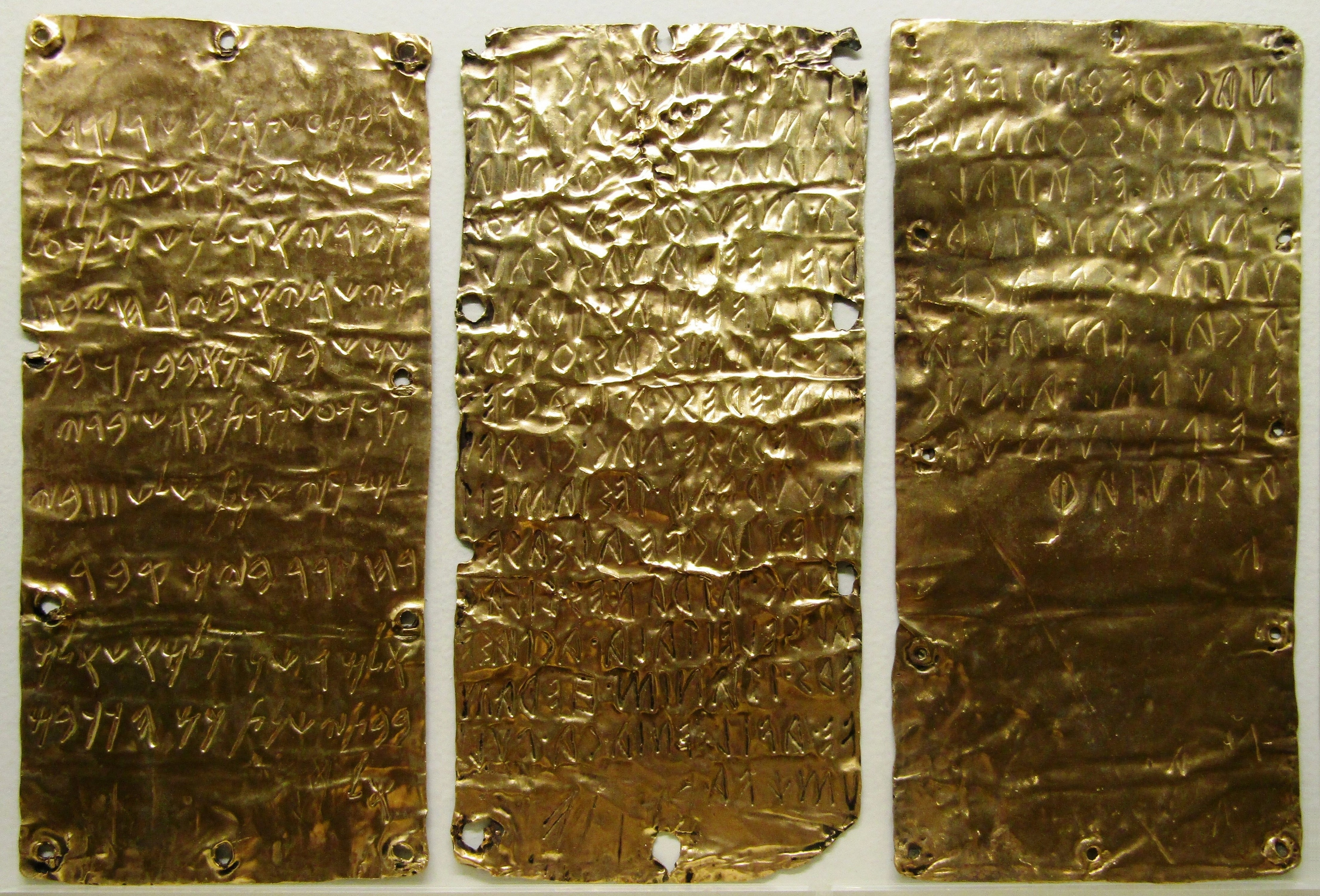 Etruschi Exibition in the Museo civico archeologico (Bologna)